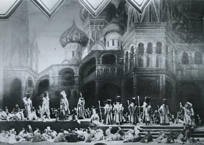 The St. Basil's Scene from the opera Boris Godunov, as performed by the Bolshoy Theatre in 1927